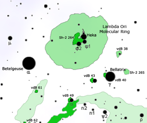 Map of Lambda Orionis Molecular Ring